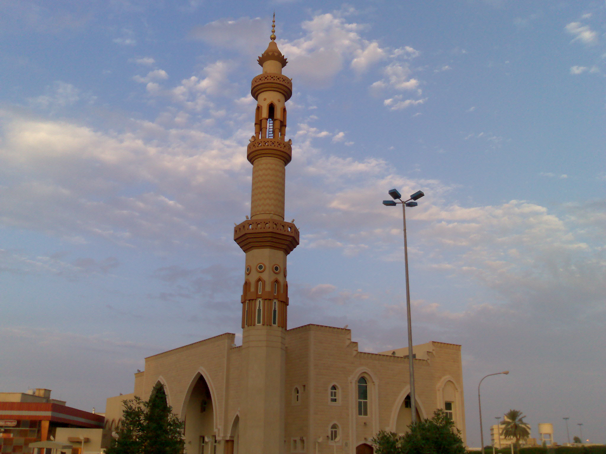 Al Gadhi Mosque is one the largest mosques in Unaizah, it was officially opened in 2006